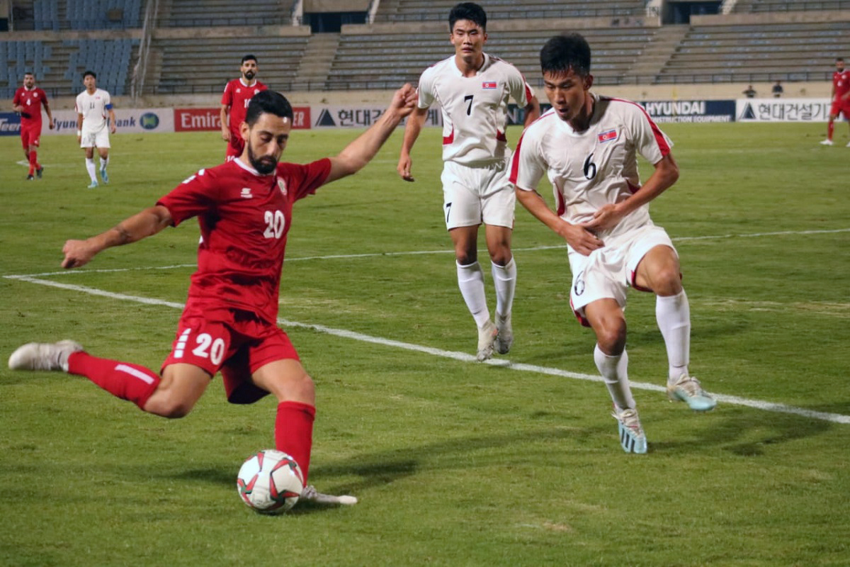 Lebanon v North Korea at the 2022 FIFA World Cup qualifiers.